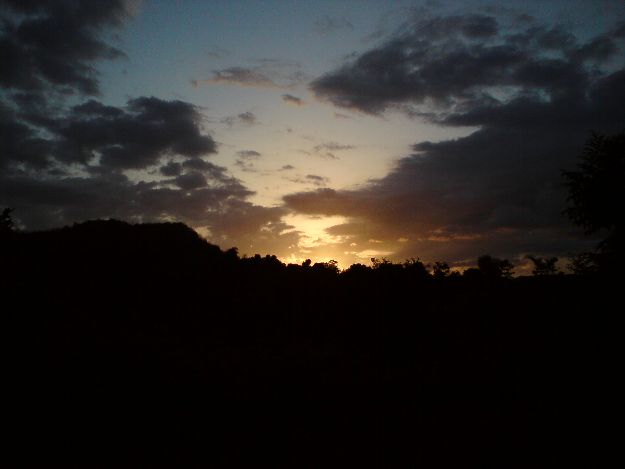 This is the photo taken with Sony Ericsson C510 phone. Location - Sangameshwar, Ratnagiri, India.